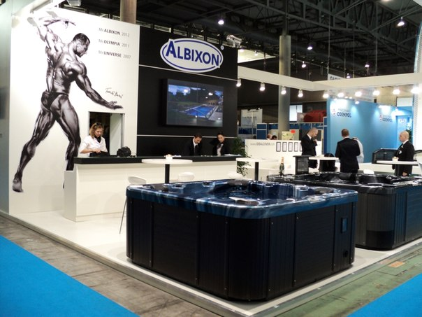 Albion Group in Barcelona exhibition